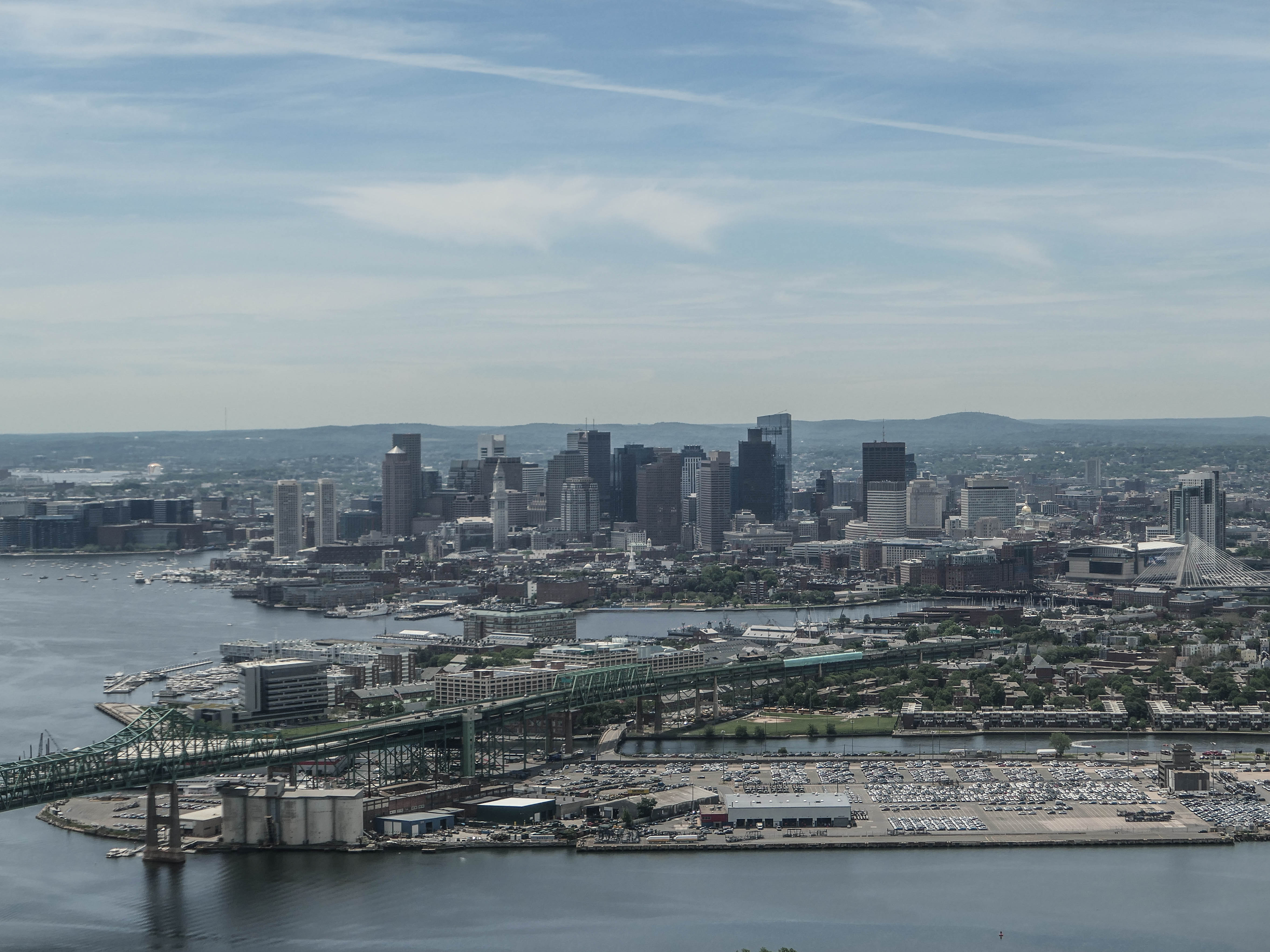 The Tobin Bridge, Charlestown, and the Boston skyline in June 2017